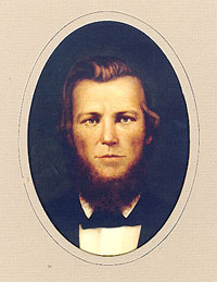 Pendleton Murrah, 10th Governor of the State of Texas.